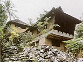 The Hamlet'—House of renowned architect Laurie Baker.